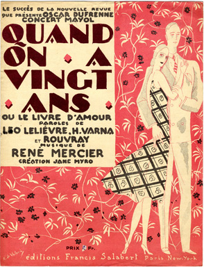 Cover of revue